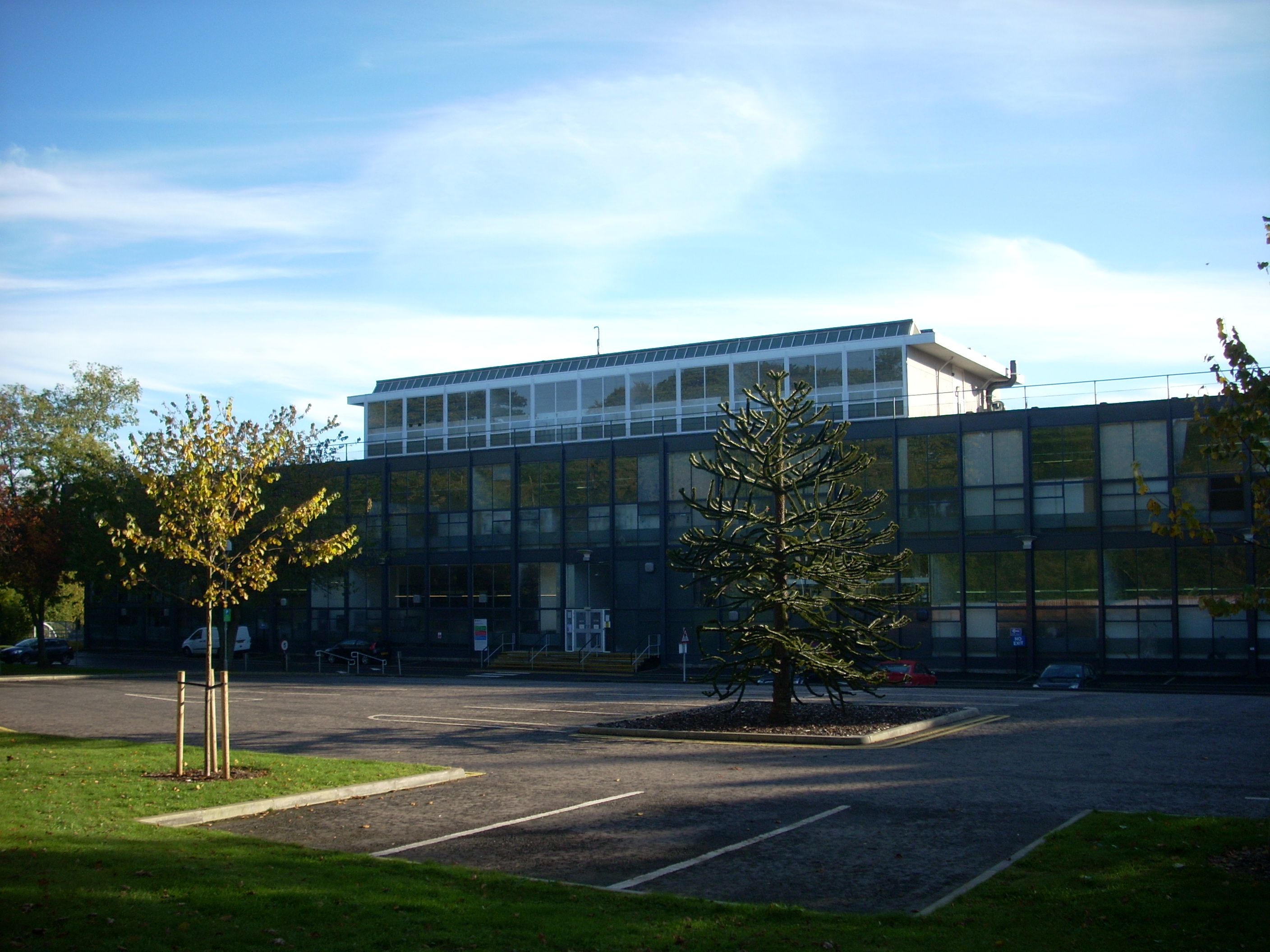 Gray's School of Art building at the Robert Gordon University, Garthdee campus, Aberdeen, UK. The design was inspired by the work of American architect Mies van der Rohe.